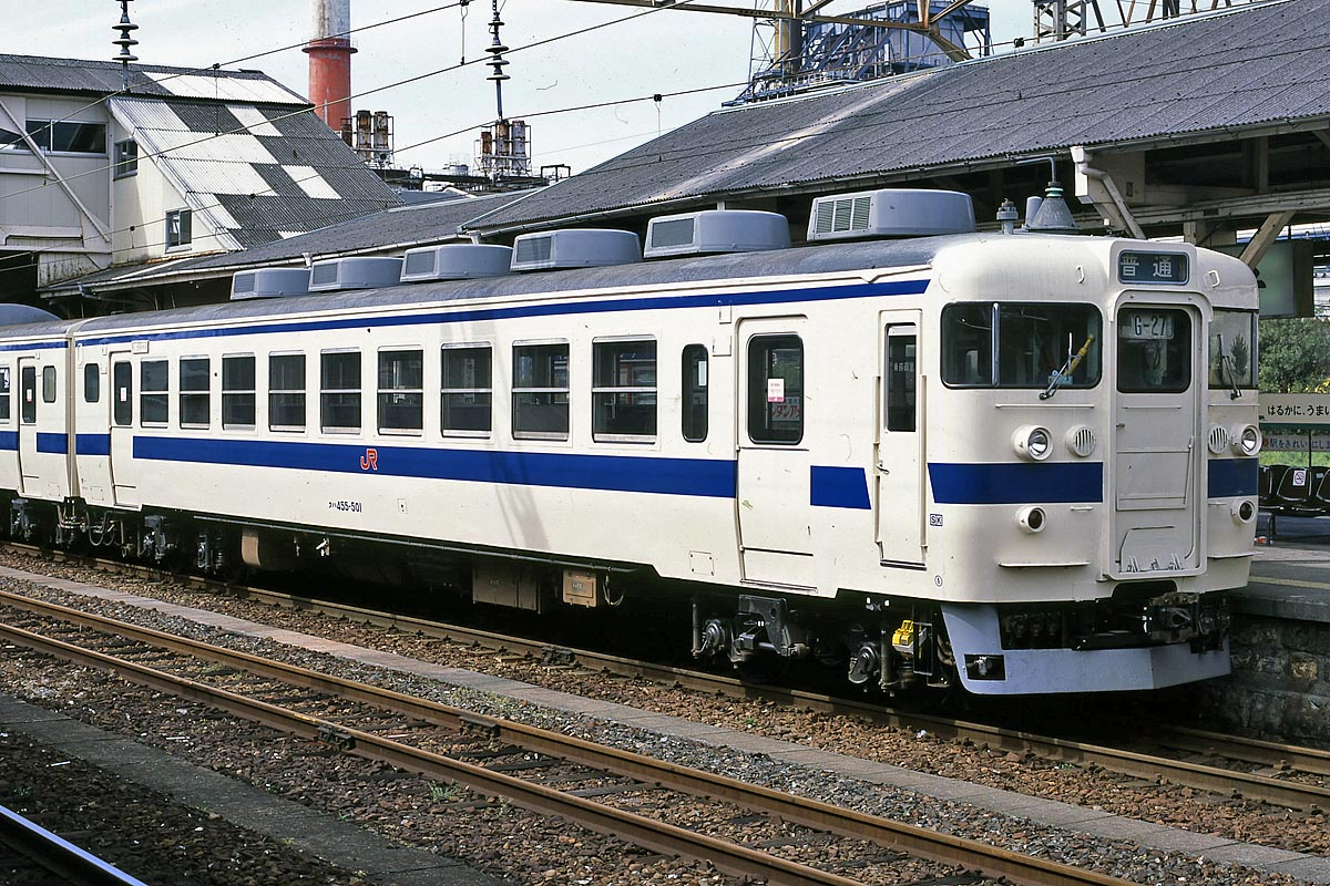 JR Kyushu 455 series EMU car KuHa 455-501 in mixed 475/455 series set GK27 at Yatsushiro Station